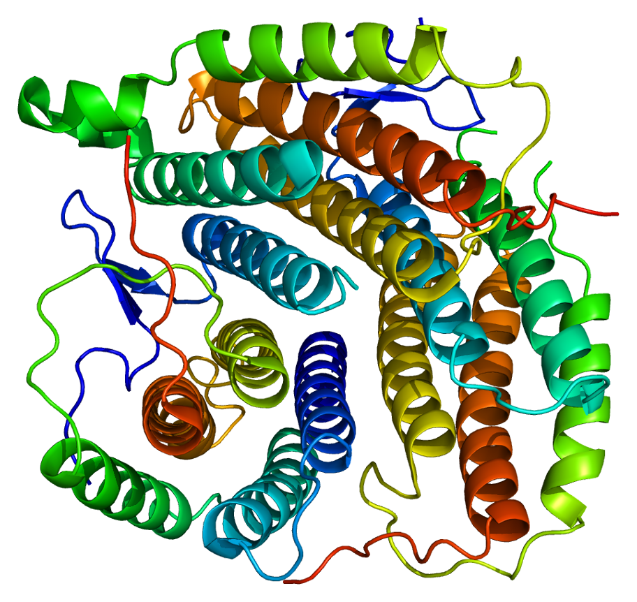 Structure of the MMAB protein. Based on PyMOL rendering of PDB 2idx.